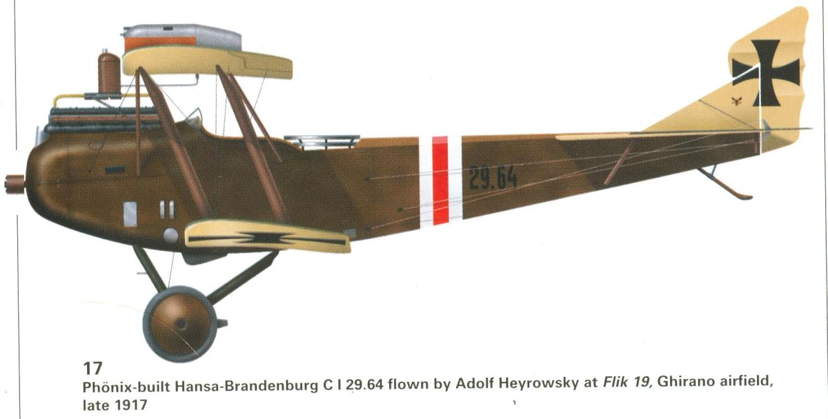 Adolf Heyrowski's airplane.